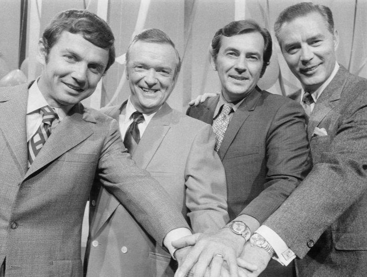 Publicity photo of the hosts of NBC Television's game shows in 1970. From left: Art James (Who, What or Where Game), Bob Clayton (Concentration), Jack Kelly (Sale of the Century) and Art Fleming (Jeopardy).